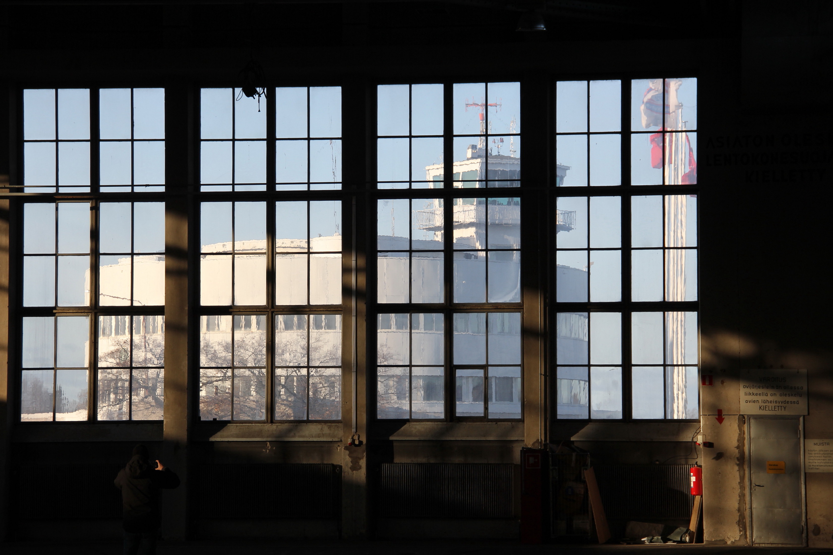 Helsinki-Malmi airport hangar, Helsinki, Finland. - Terminal seen through hangar window.